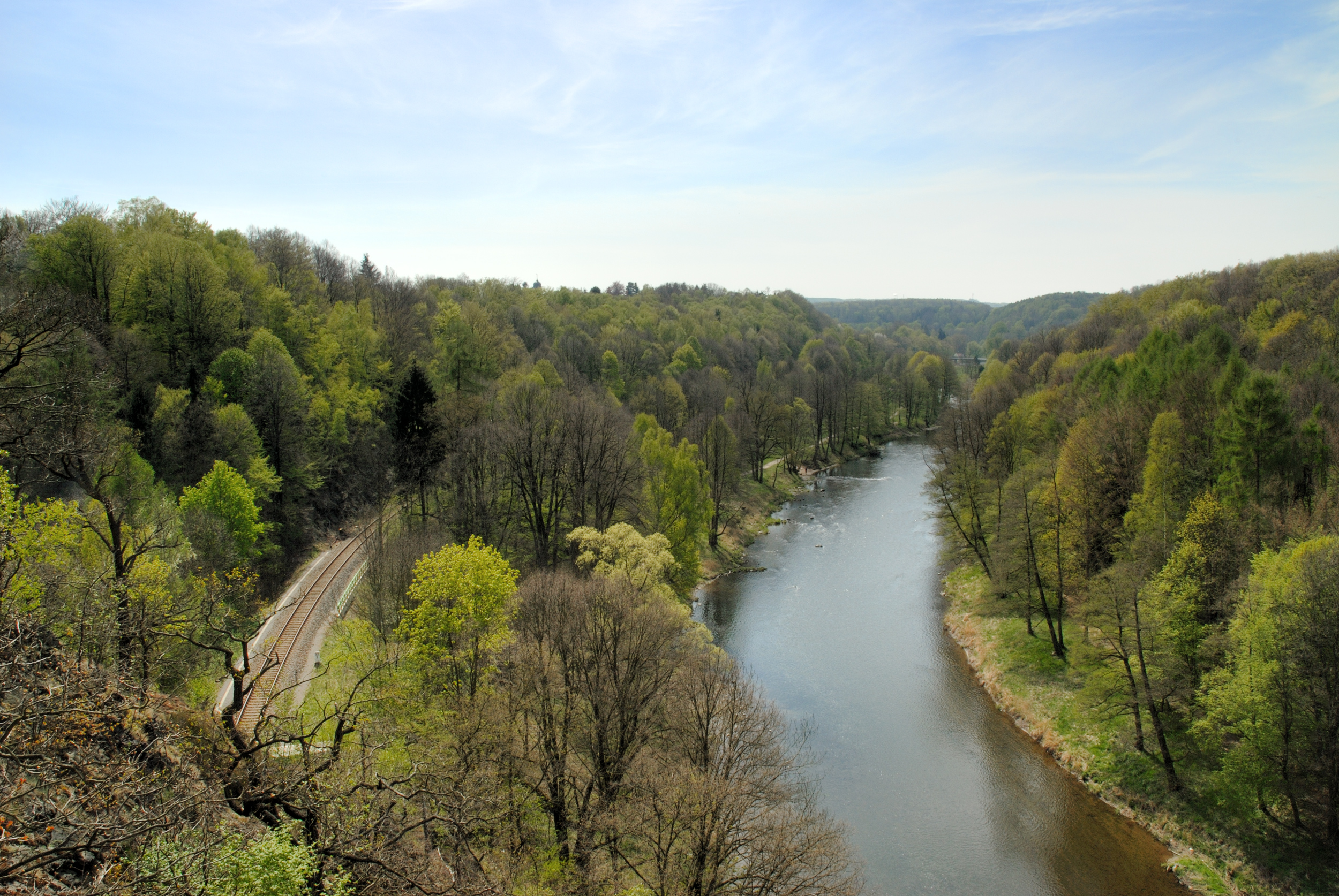 This image shows a view from the Harrasfelsen ("Harras rock") near Braunsdorf (Niederwiesa), Germany.